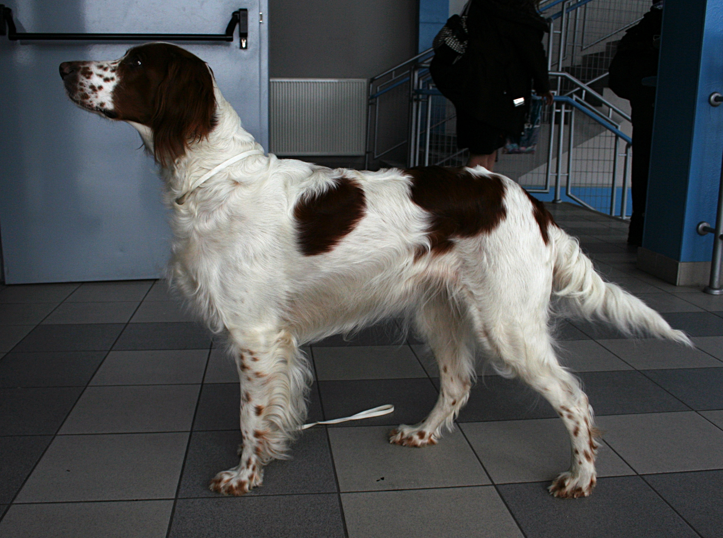 Irish Red and White Setter during International dog show in Rzeszów, Poland.